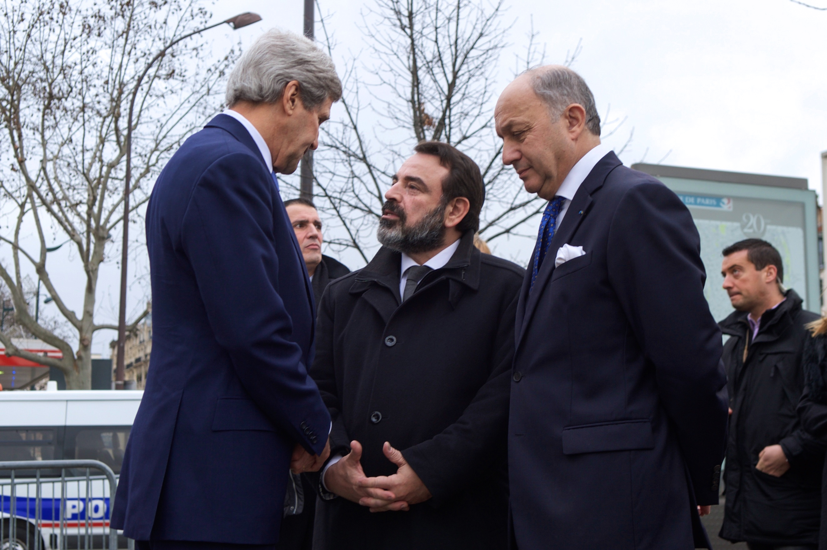 Joel Mergui, leader of France's Rabbinical Council, speaks to U.S. Secretary of State John Kerry and French Foreign Minister Laurent Fabius outside the Hyper Cacher kosher grocery in Paris, France, as the two leaders made stops across Paris, France, on January 16, 2015, to pay homage to the victims of last week's shootings. [State Department photo/ Public Domain]